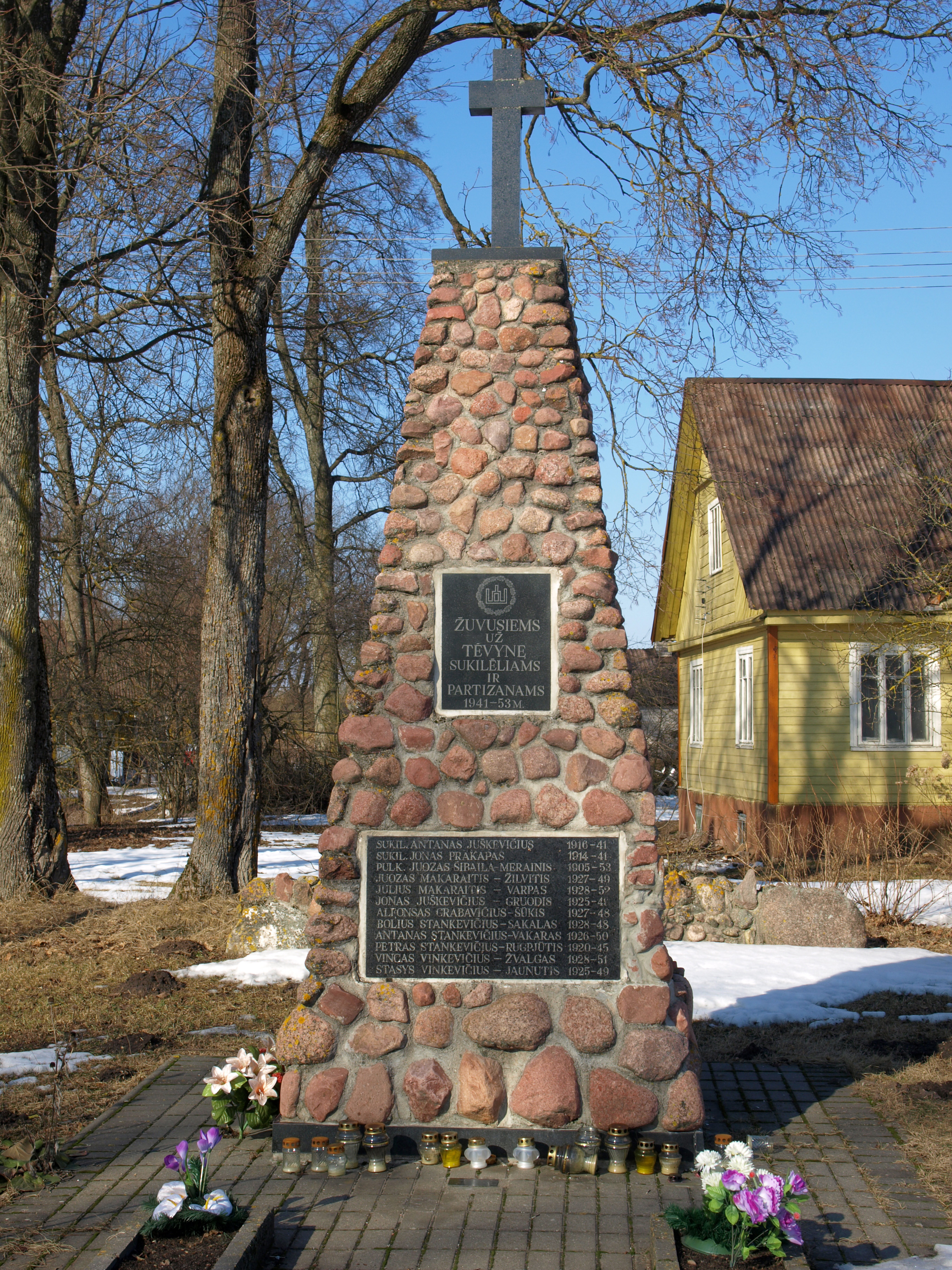 Nedzingė memorial, Varėna district